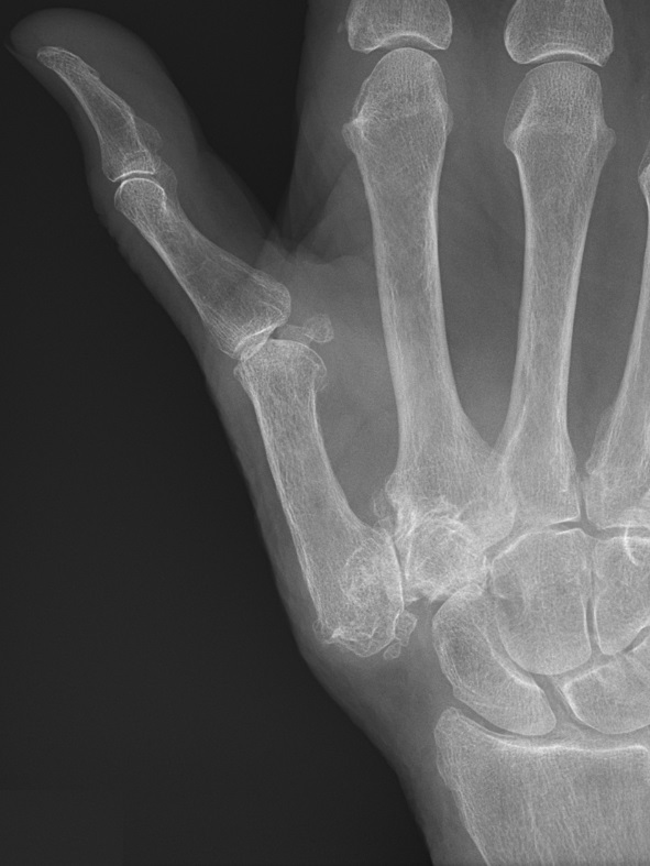 Projectional radiography of the hand of an 87 year old woman, showing severe trapeziometacarpal osteoarthritis with major subluxation of the joint.